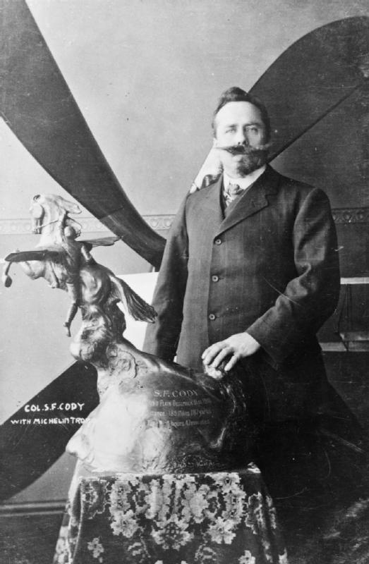 Aviation in Britain Before the First World War- the work of Samuel Franklin Cody in Airship, Kite and Aircraft Aeronautics 1903 - 1913 Portrait of S F Cody shortly taken shortly after winning his first Michelin Trophy. The Michelin Trophy was an annual competition sponsored by Monsieur Michelin. The trophy shown with Cody, was for the longest flight in a closed circuit in the year 1910 by a British subject in an all British plane. Cody won this on the 31st December, beating his two rivals T.O.M. Sopwith and Alec Ogilvie with a flight of 185 miles 787 yards. Cody went on to win three more Michelin trophies in 1911 and 1912.